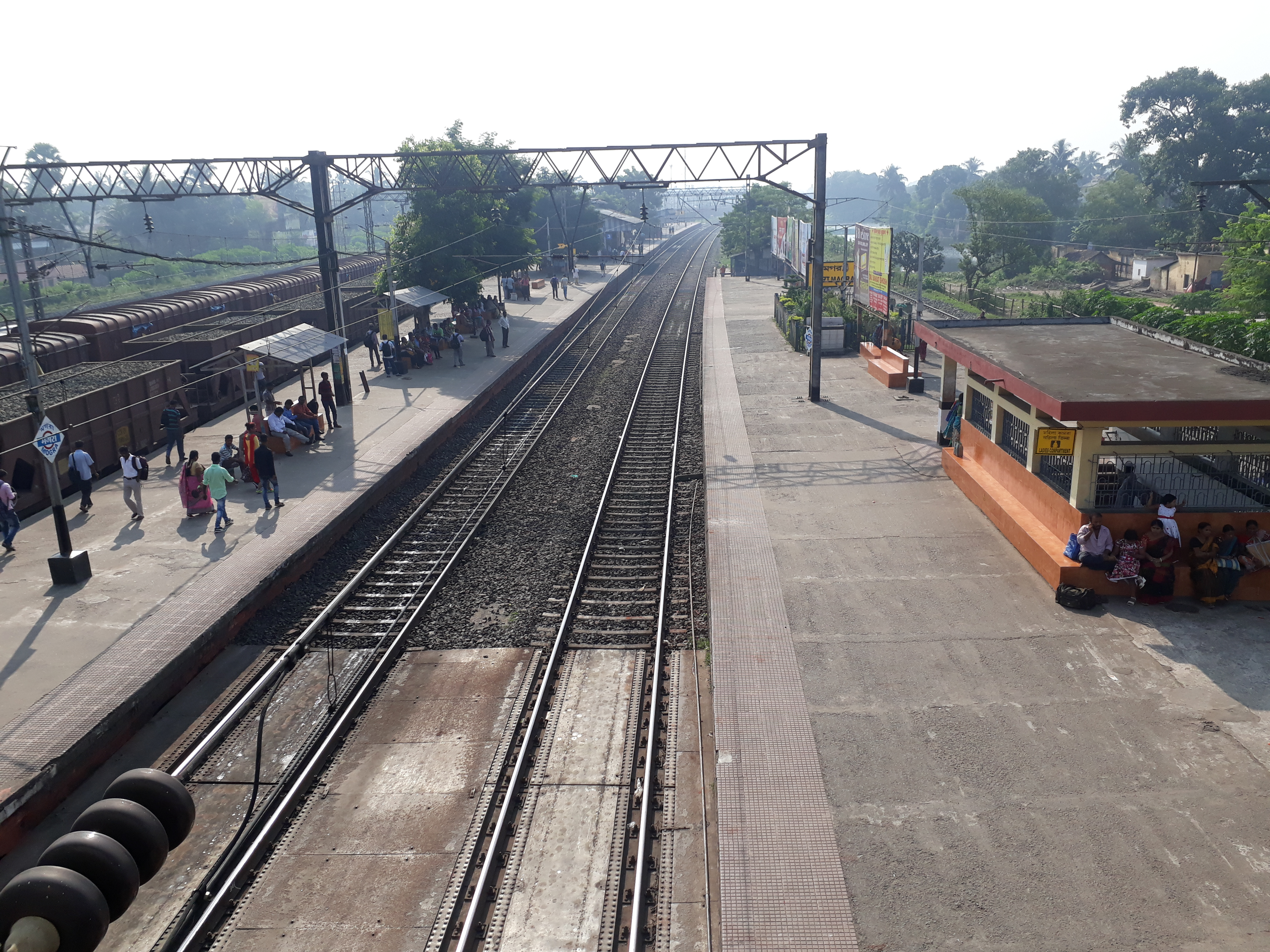 Magra railway station in Howrah Burdwan main line, Hooghly district